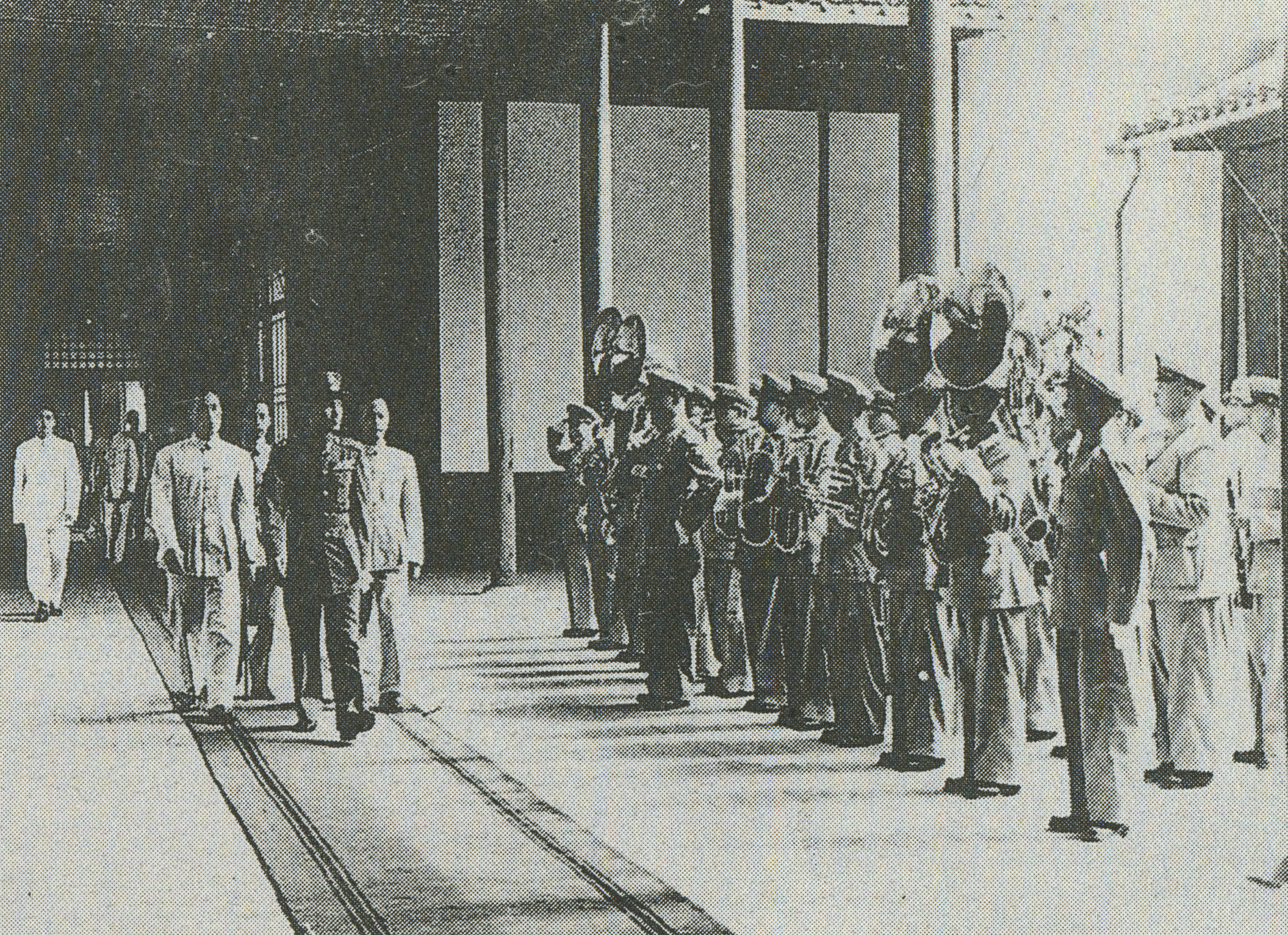 Chiang returned to Nanking